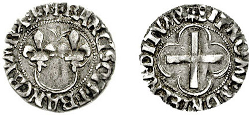 France Royal. François I de France. 1515-1547. AR Denier Tournois (0.66 g, 6h). Second type. Lyon mint; mm: trefoil. Pair of lis within trilobe; all within pelleted border Plain cross within quatrelobe; all within pelleted border. Duplessy 869/870 var. (obv./rev.; reverse with pellets in spandrels); cf. Lafaurie 728a; cf. Ciani 1189.